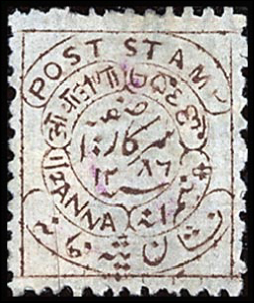 First postage stamp of princely Hyderabad State (now part of India), four-lingual, ½ (half) anna, 1871, scott#1. Addl info by Apsingh - Stanley Gibbons 4 for Hyderabad state (Ref:Stanley Gibbons Stamp 2008 Catalogue British Empire & Commonwealth (1840-1970), pg 304.